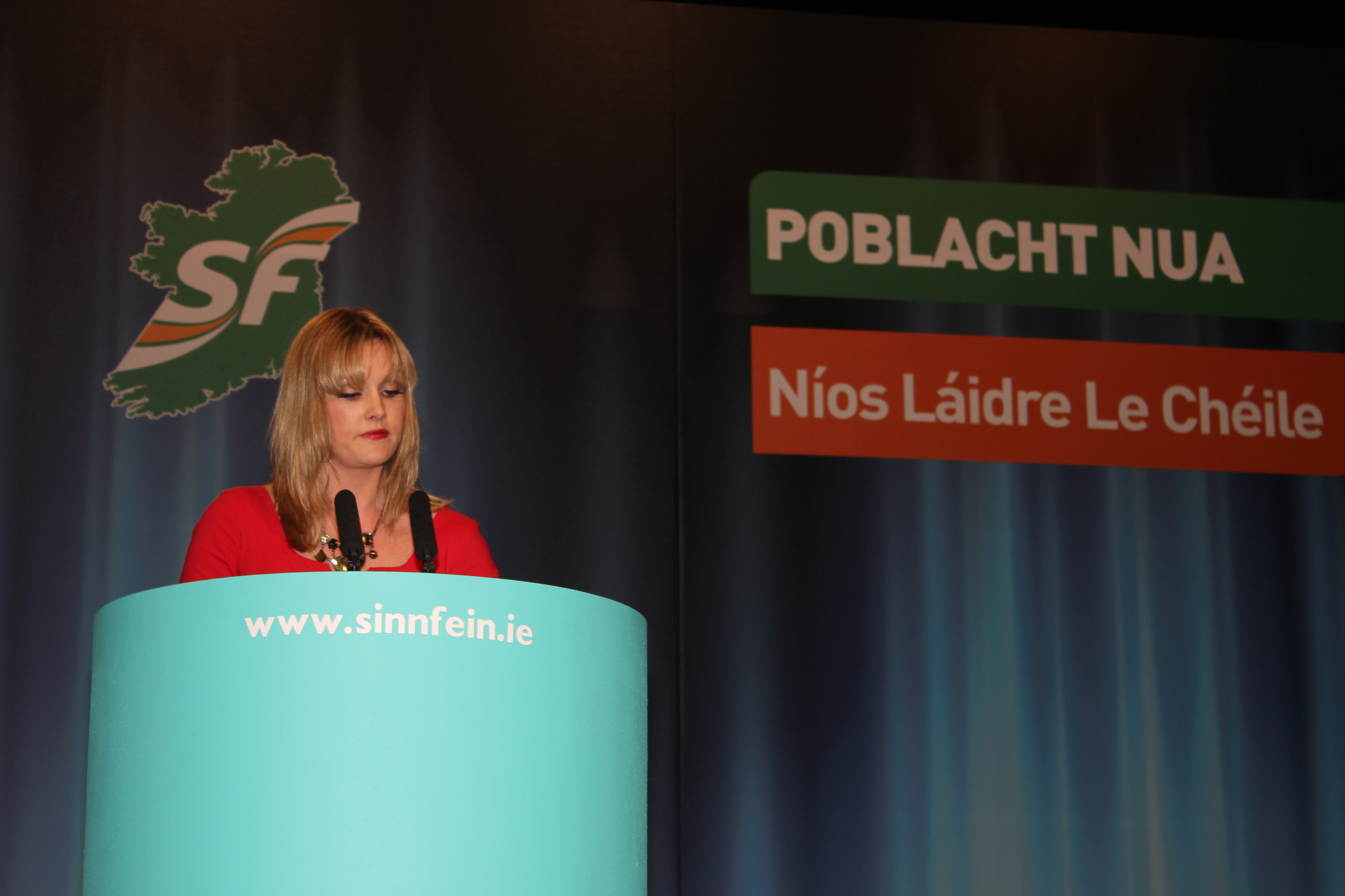 Toiréasa Ferris in 2013